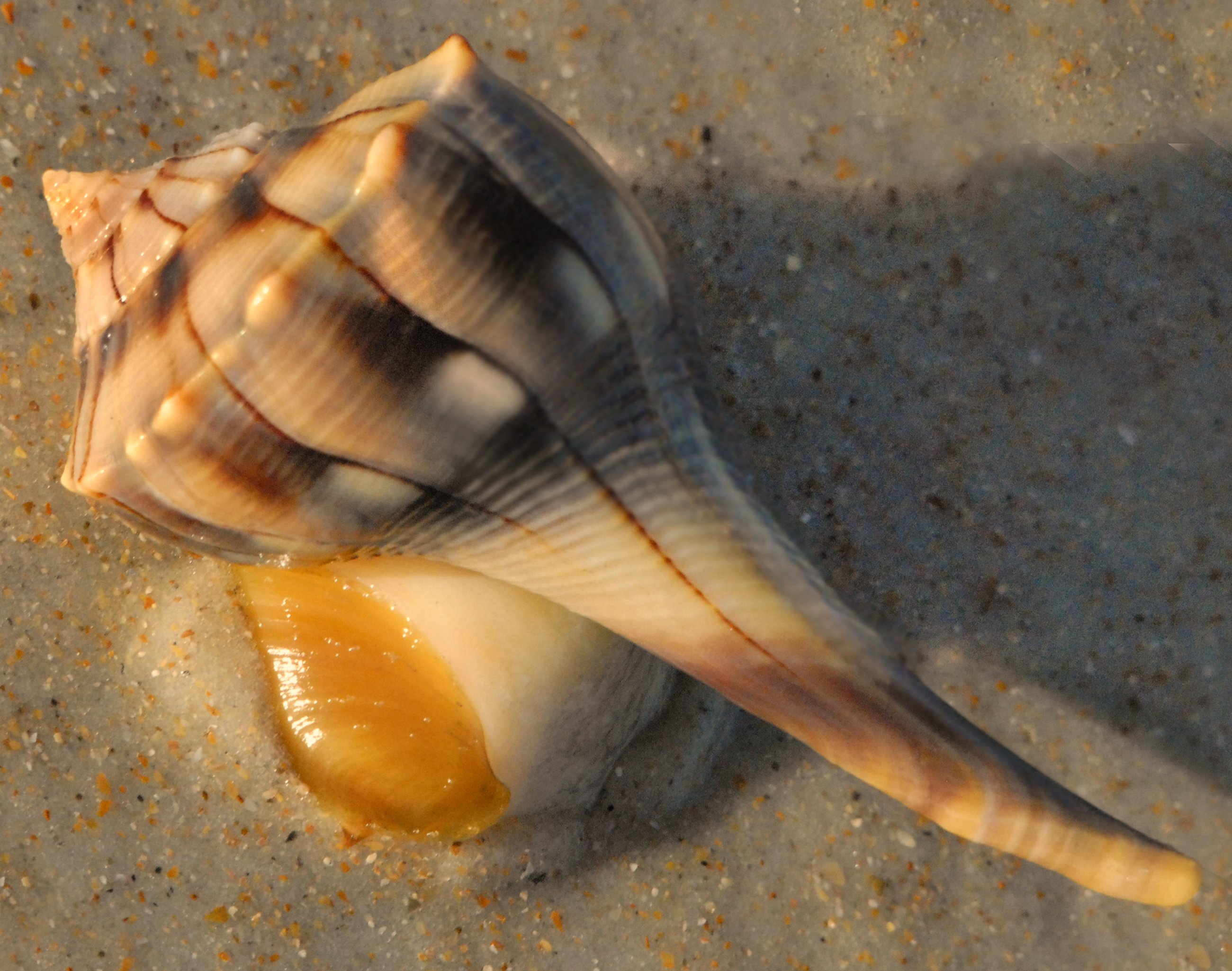 Sinistrofulgur perversum (Linnaeus, 1758) , live Lightning Whelk at Smyrna Dunes Park